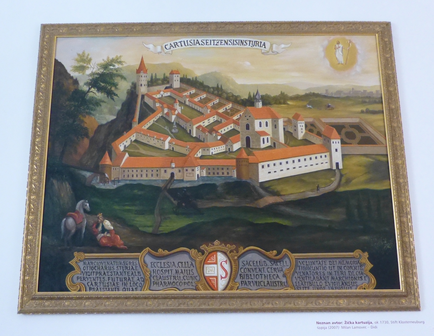 Representation of the Charterhouse of Žiče (Seitz, south of Gonobitz, Slovenian Styria) in 1730, copy in 2007 of the original at Klosterneuburg (Austria).